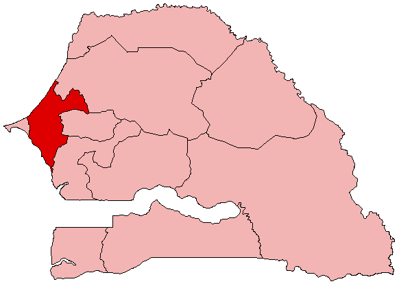 Map of Thies region, Senegal.